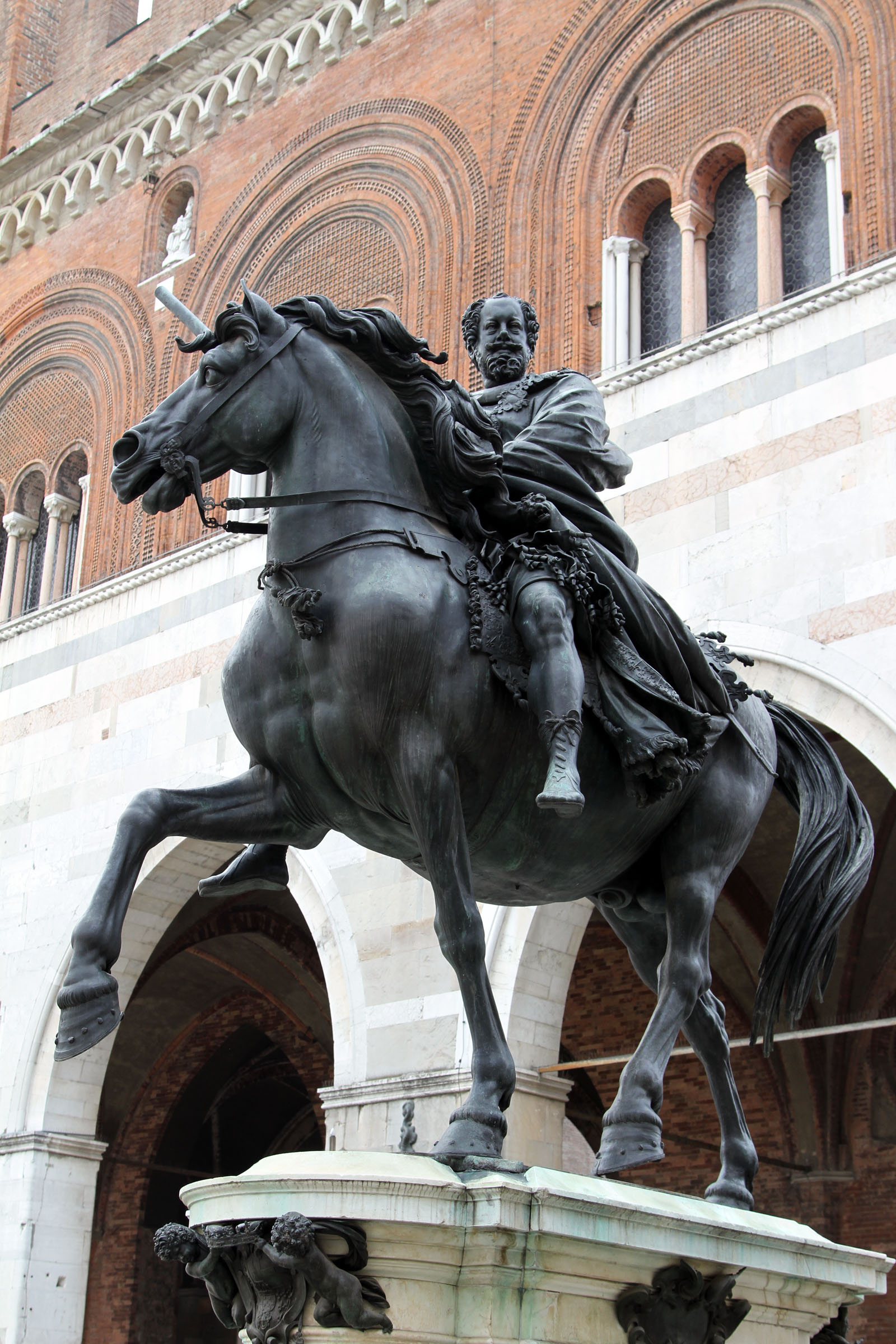 This is a photo of a monument which is part of cultural heritage of Italy.